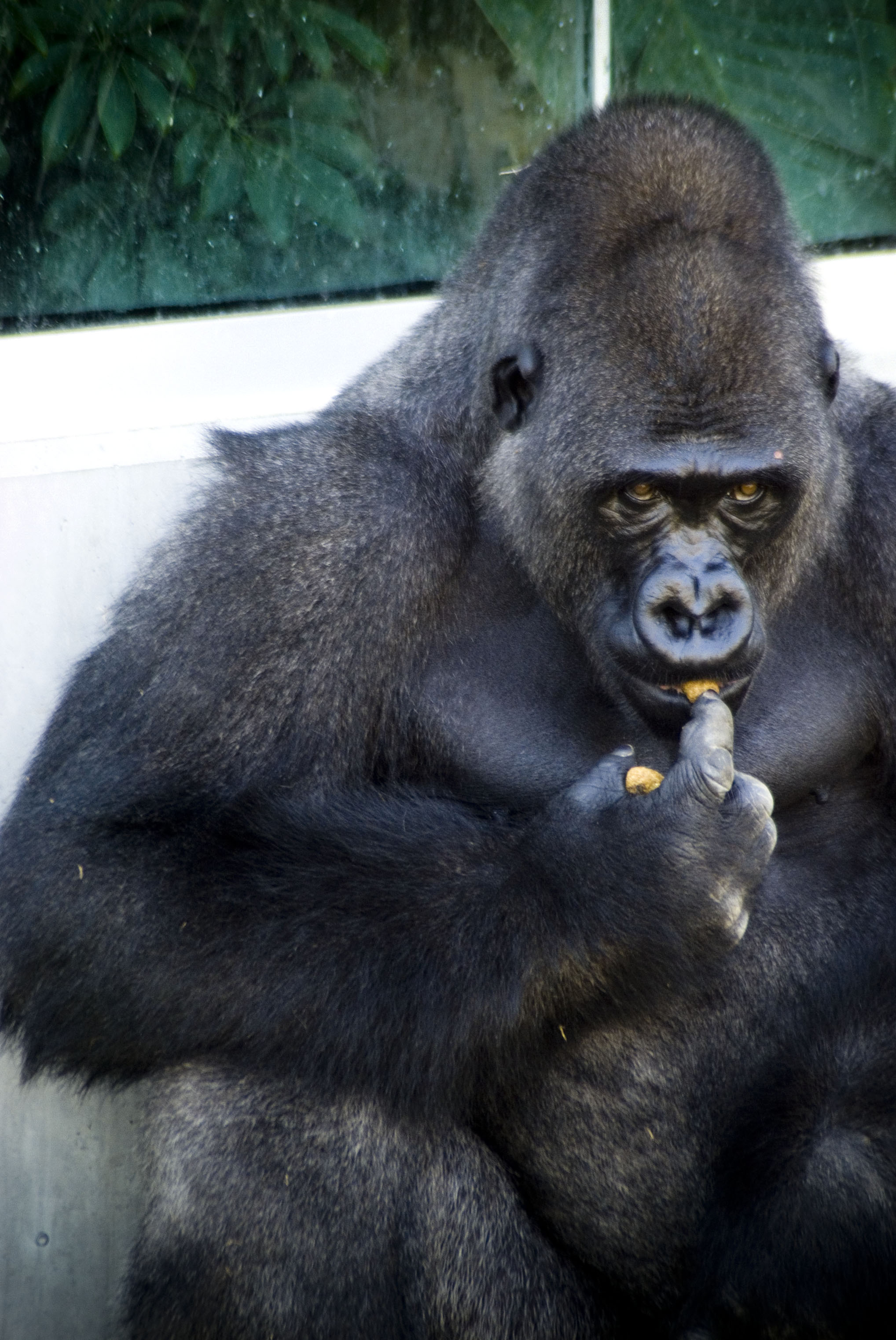 A gorilla at the Sedgwick County Zoo in Wichita, Kansas.